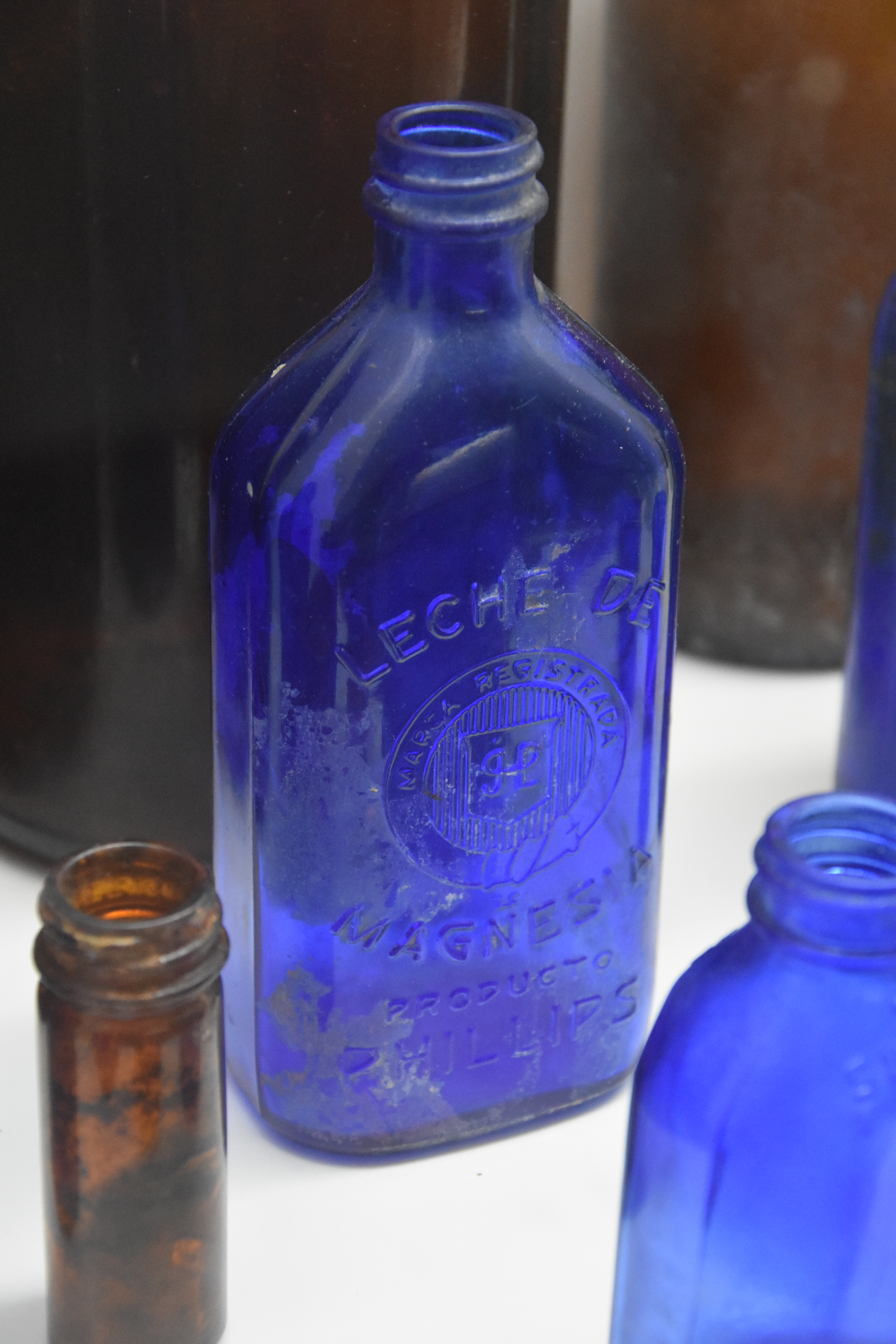 Bottle of Phillip's Milk of Magnesia in the Amber Museum, Santo Domingo, Dominican Republic.